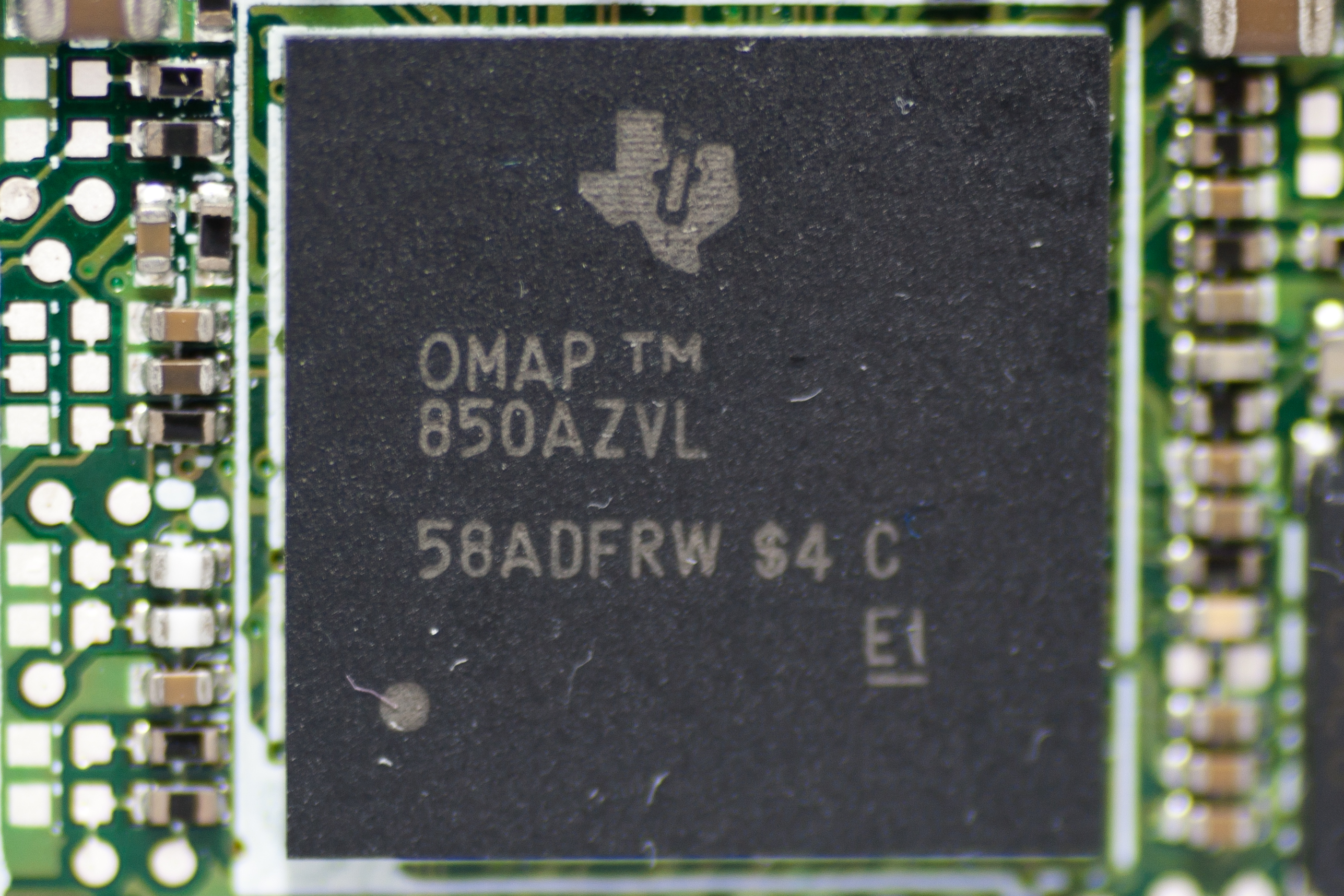 Texas Instruments OMAP 850 AZVL